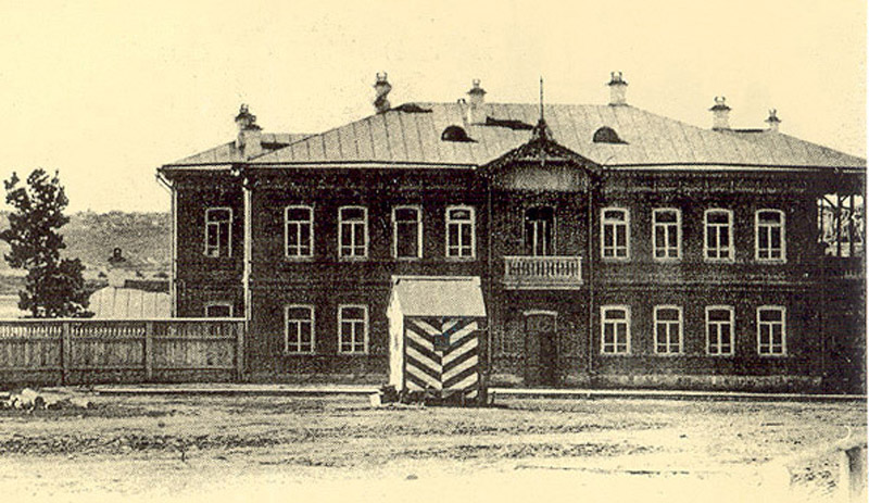 House of the Cabinet of His Imperial Majesty in the 1900s. Novonikolayevsk (current Novosibirsk), Russian Empire.